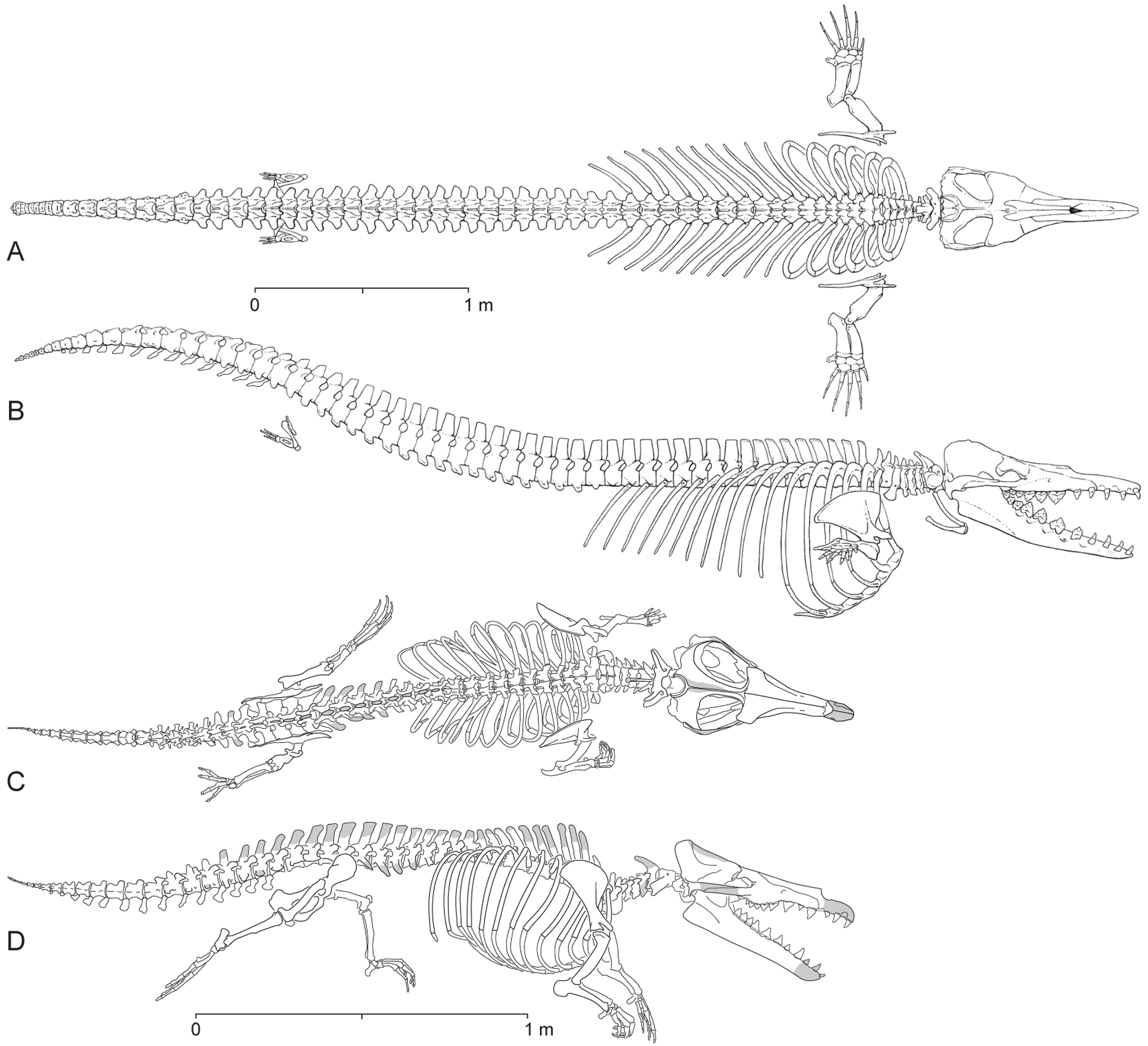 Skeletons of the Eocene archaeocete whales Dorudon atrox and Maiacetus inuus in swimming pose. (A, B)– Dorudon atrox (5.0 m; 36.5 Ma) based on UM 101222 and 101215 [11] in lateral and dorsal views, respectively. (C, D)– Maiacetus inuus (2.6 m; 47.5 Ma) based on male specimen GSP-UM 3551 in lateral and dorsal views, respectively.